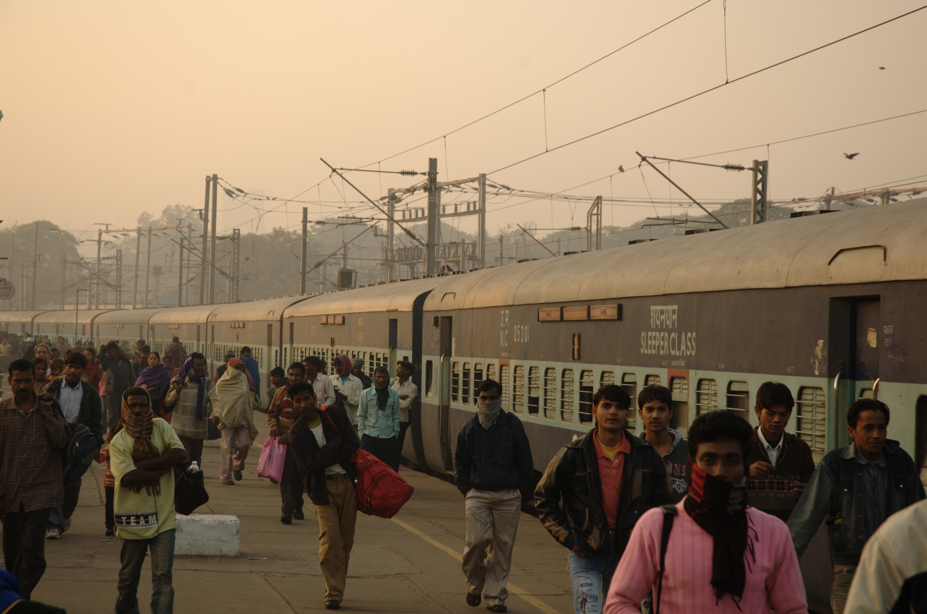 Could be any morning on any train station in India...